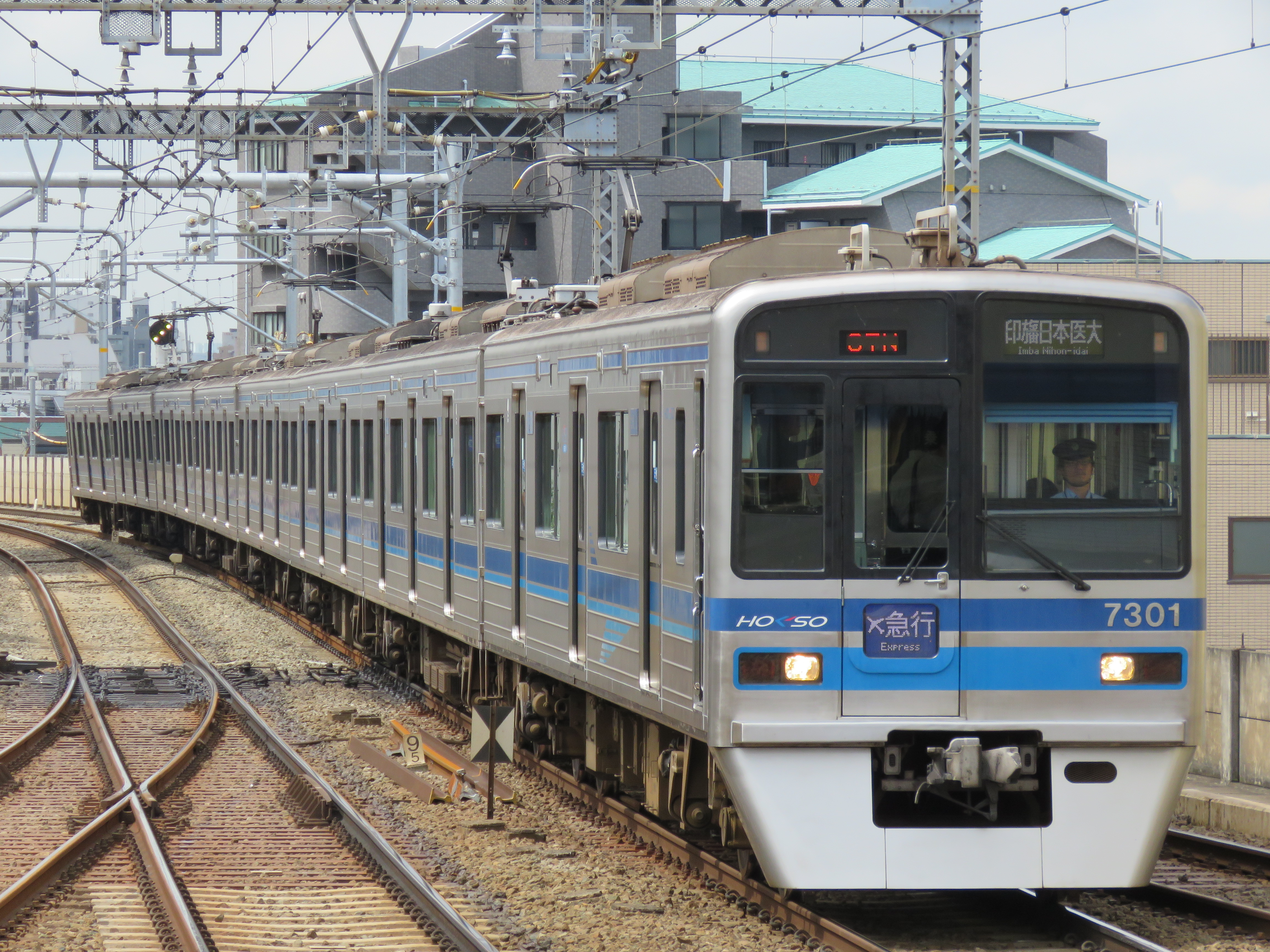 Hokuso Railway 7300 series EMU set 7308 approaching Heiwajima Station in Tokyo